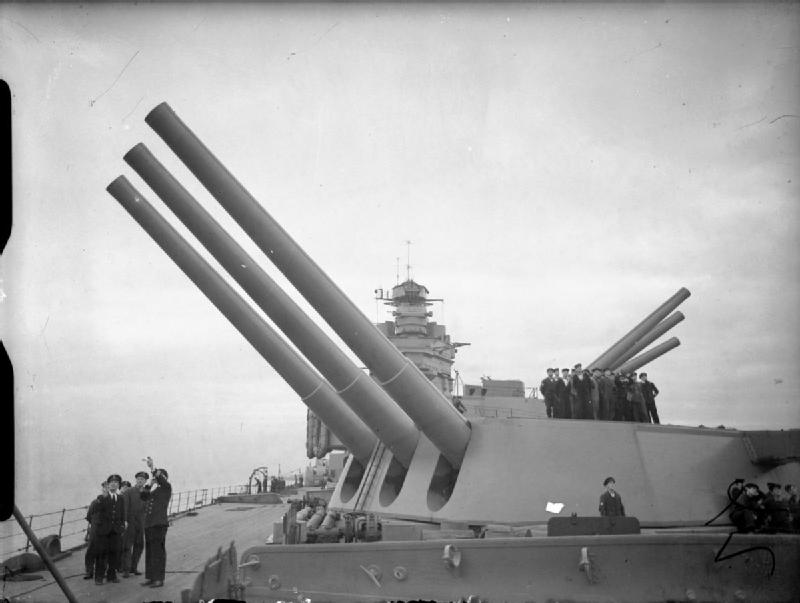 IWM caption : "On board HMS RODNEY a group of officers and men standing on a 16 inch turret watching a "Fashion Parade". Aircraft of all types (not in the picture) fly past at a considerable height to give the Navy practice in identifying the machines. Note the 16 inch guns are at maximum elevation."